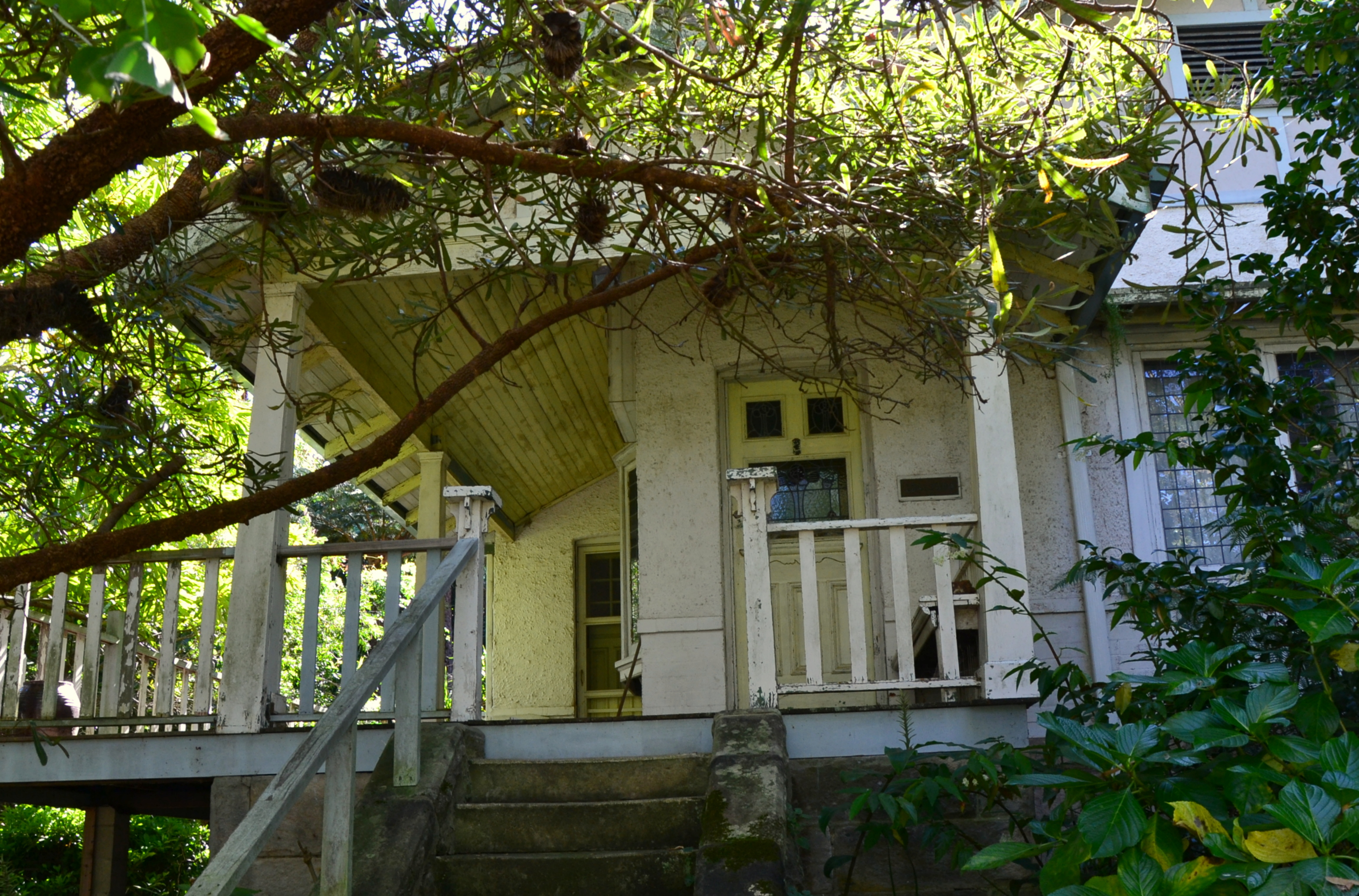 Ambleside, former home of Australian photographer Harold Cazneaux, Dudley Avenue, Roseville, Sydney